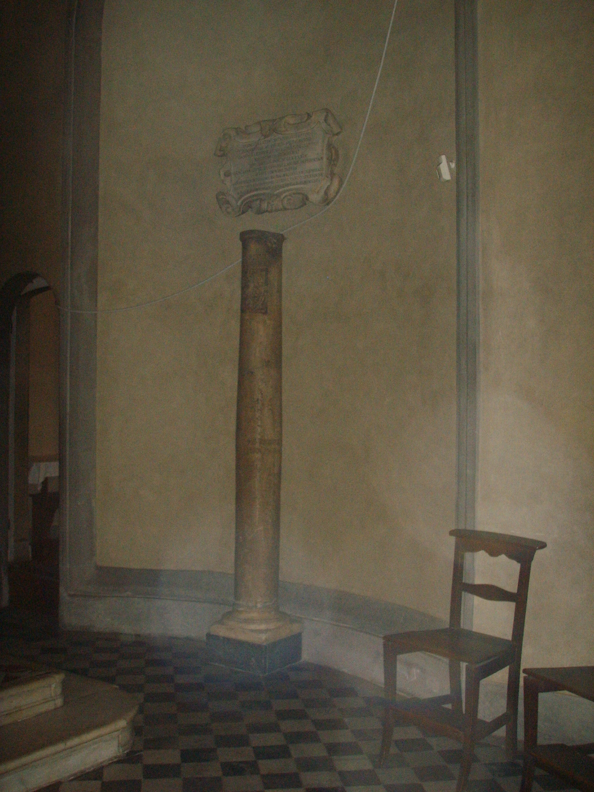 Santa Maria Maggiore in Florence, Italy: The pillar which is all that remains of Brunetto Latini's and his daughters' dismembered tomb.